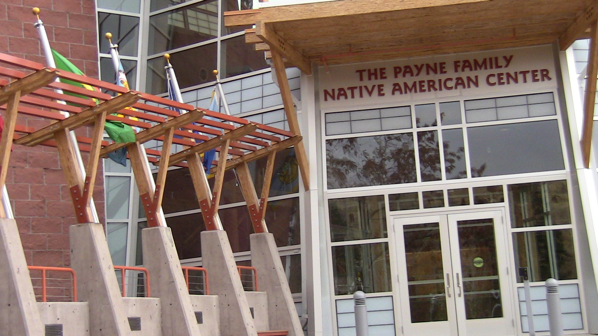 The Payne Family Native American Center is the newest facility on the University of Montana campus in Missoula, Mont.